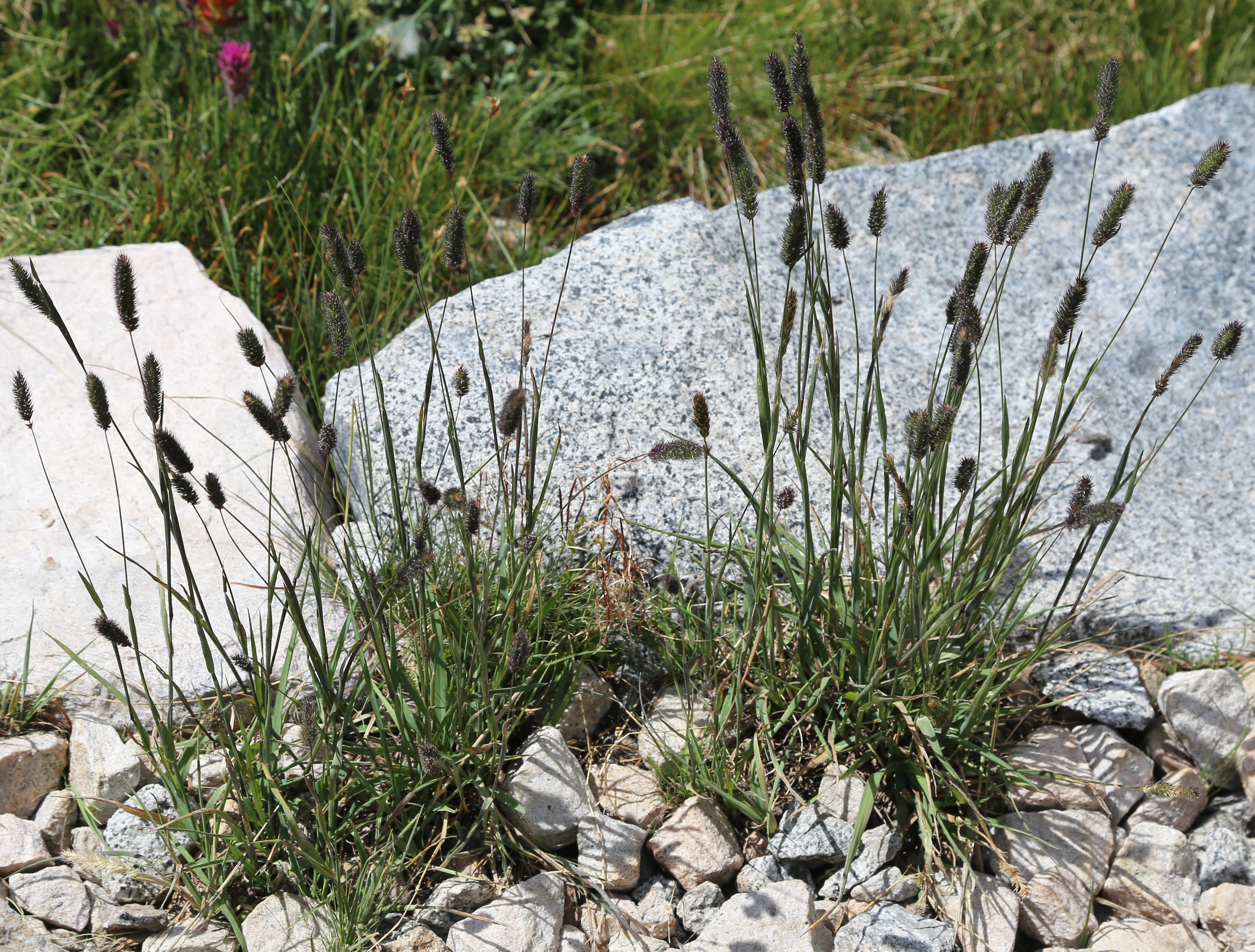 Two clumps of mountain timothy (Phleum alpinum), showing single, tight, cylindrical spike on each stem and bluish-green leaves. Near Gem Lakes, Little Lakes Valley, John Muir Wilderness, Sierra Navada USA.